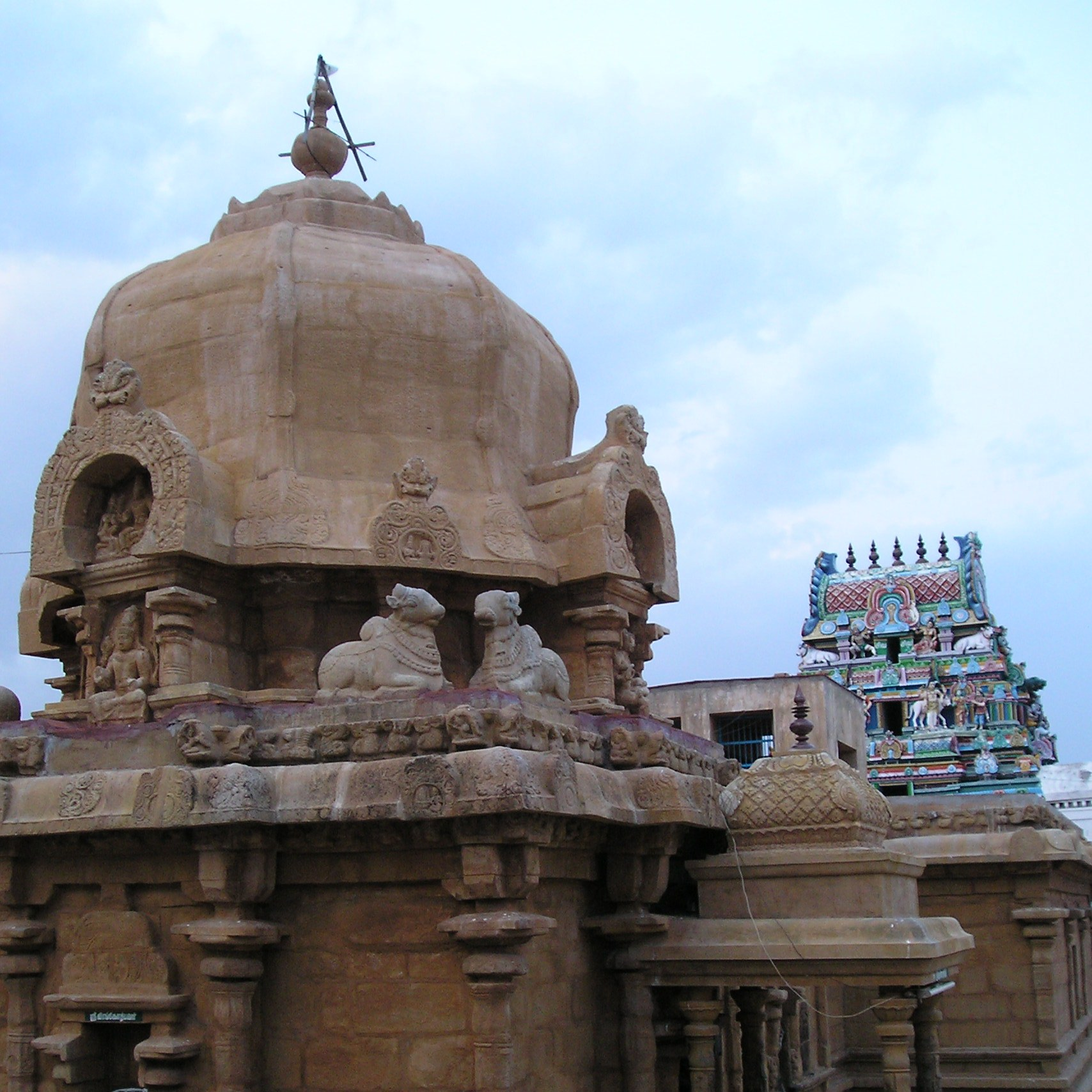 Hindu temple, gopuram